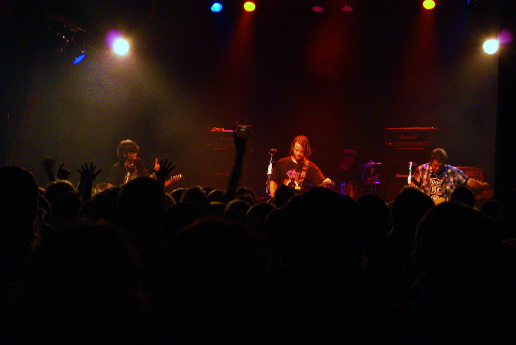 American alternative metal band CKY performing at Colchester Arts Centre, England on July 9, 2009.